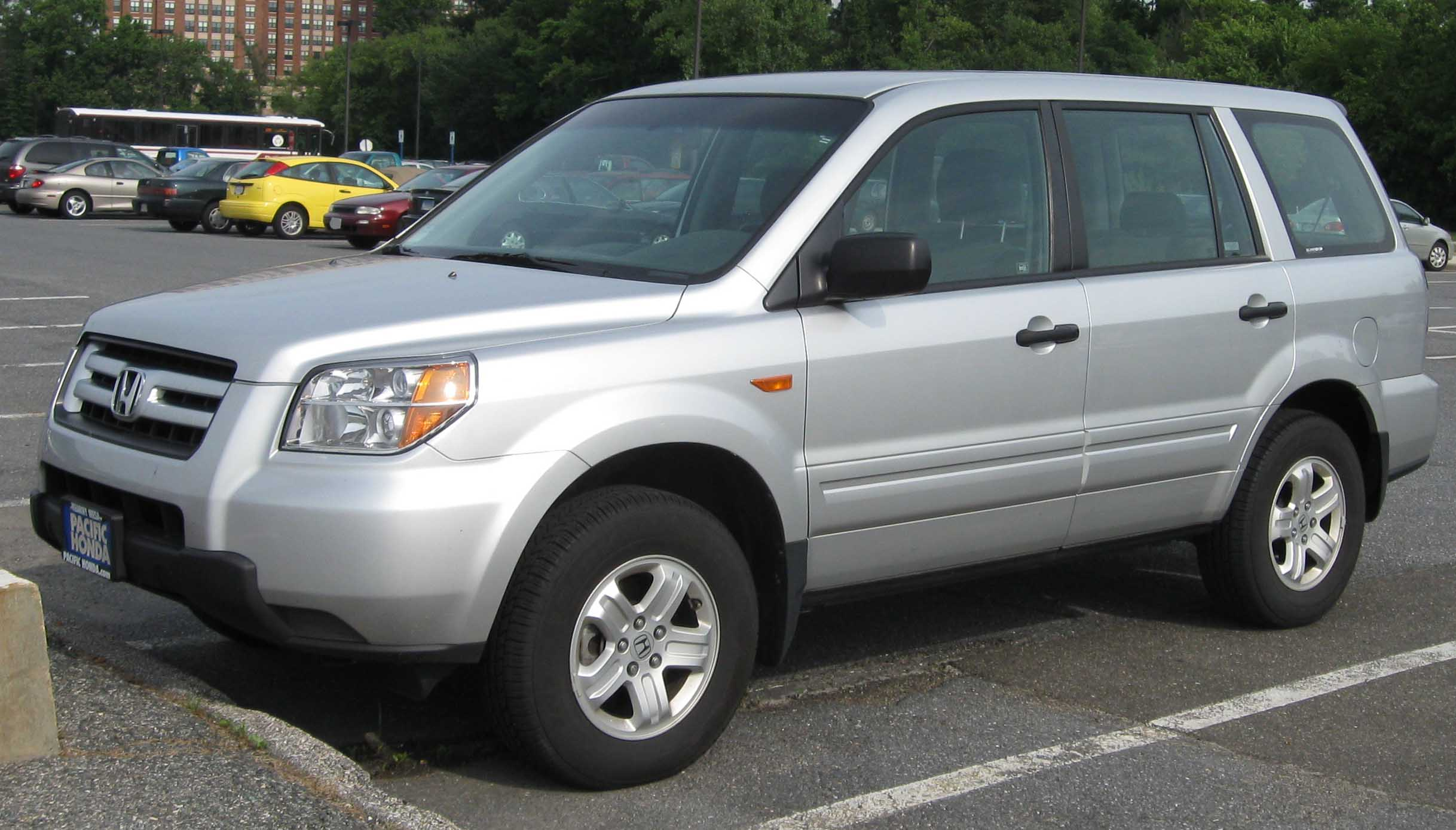 2006-2008 Honda Pilot photographed in College Park, Maryland, USA.